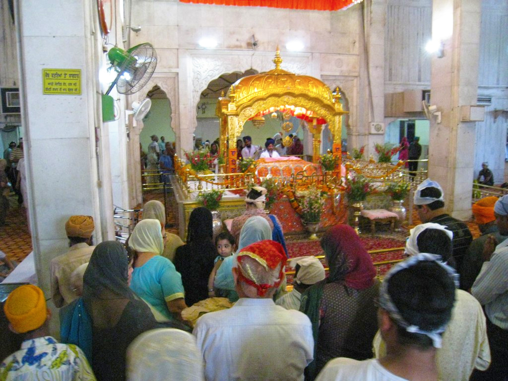 The Darbar Sahib of a Gurdwara in New Delhi, India.